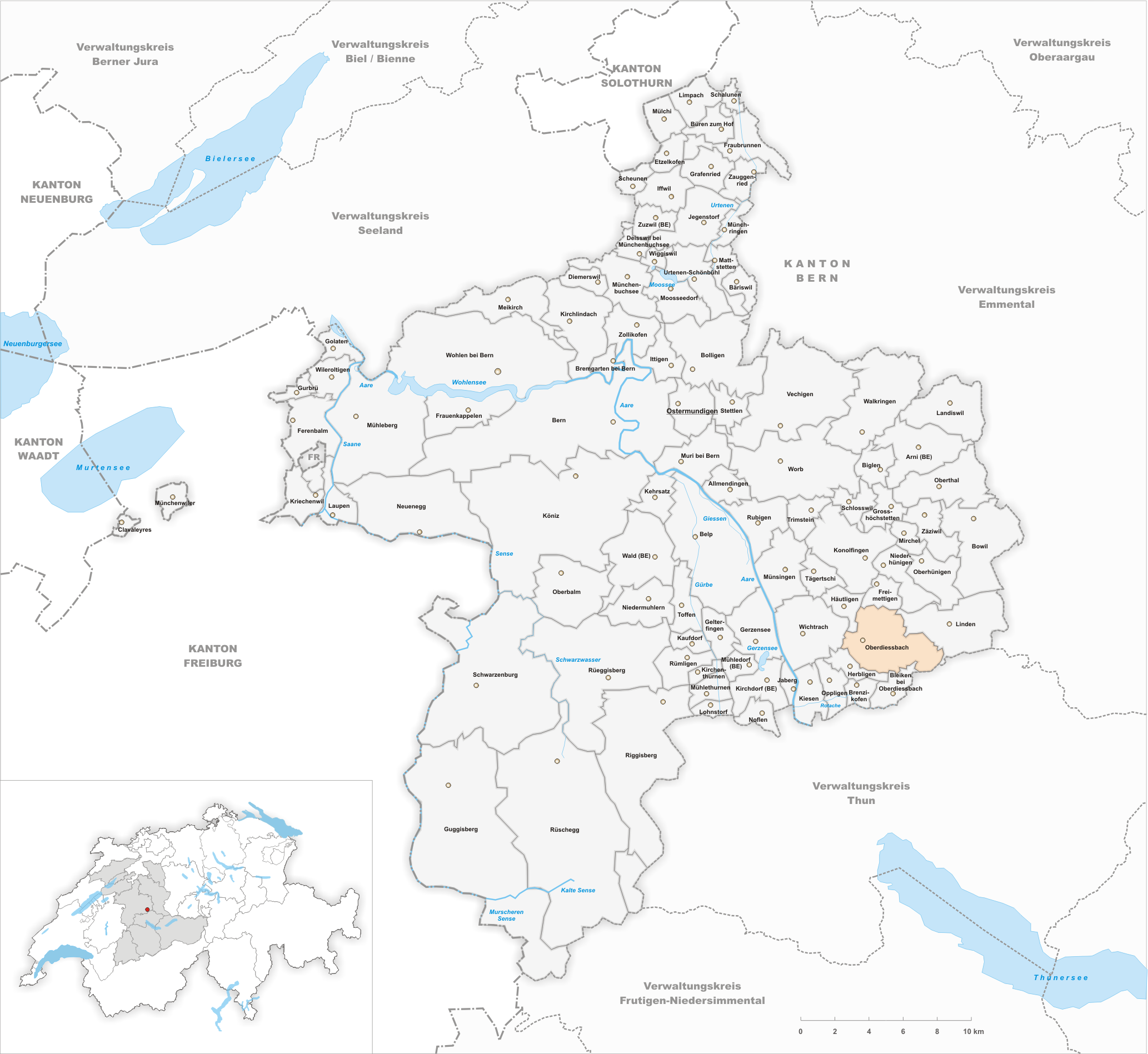 Municipality Oberdiessbach